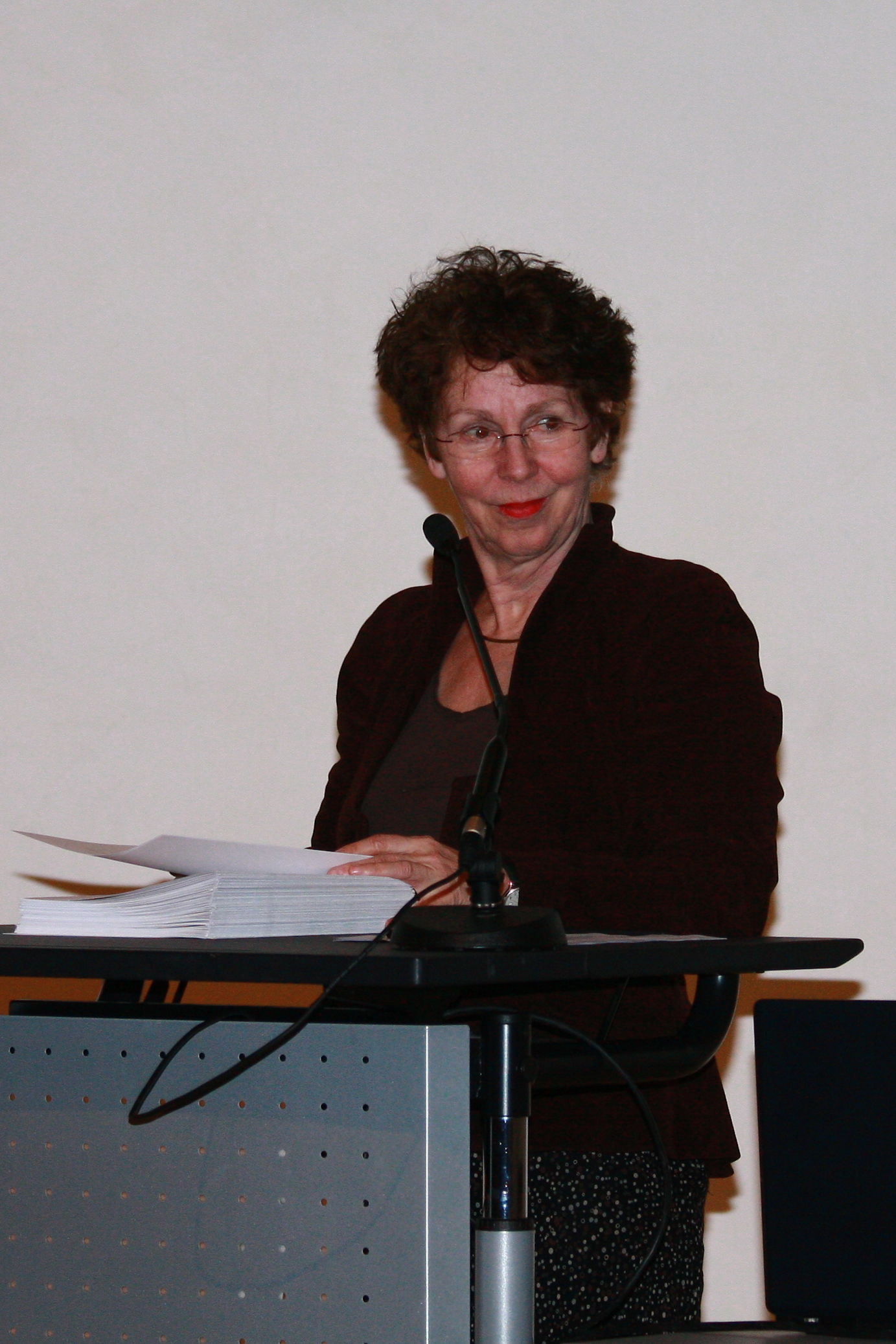 Professor Christiane Hofmann